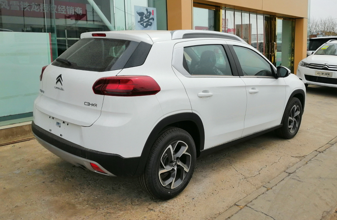 Citroën C3-XR facelift photographed in Beijing, China.